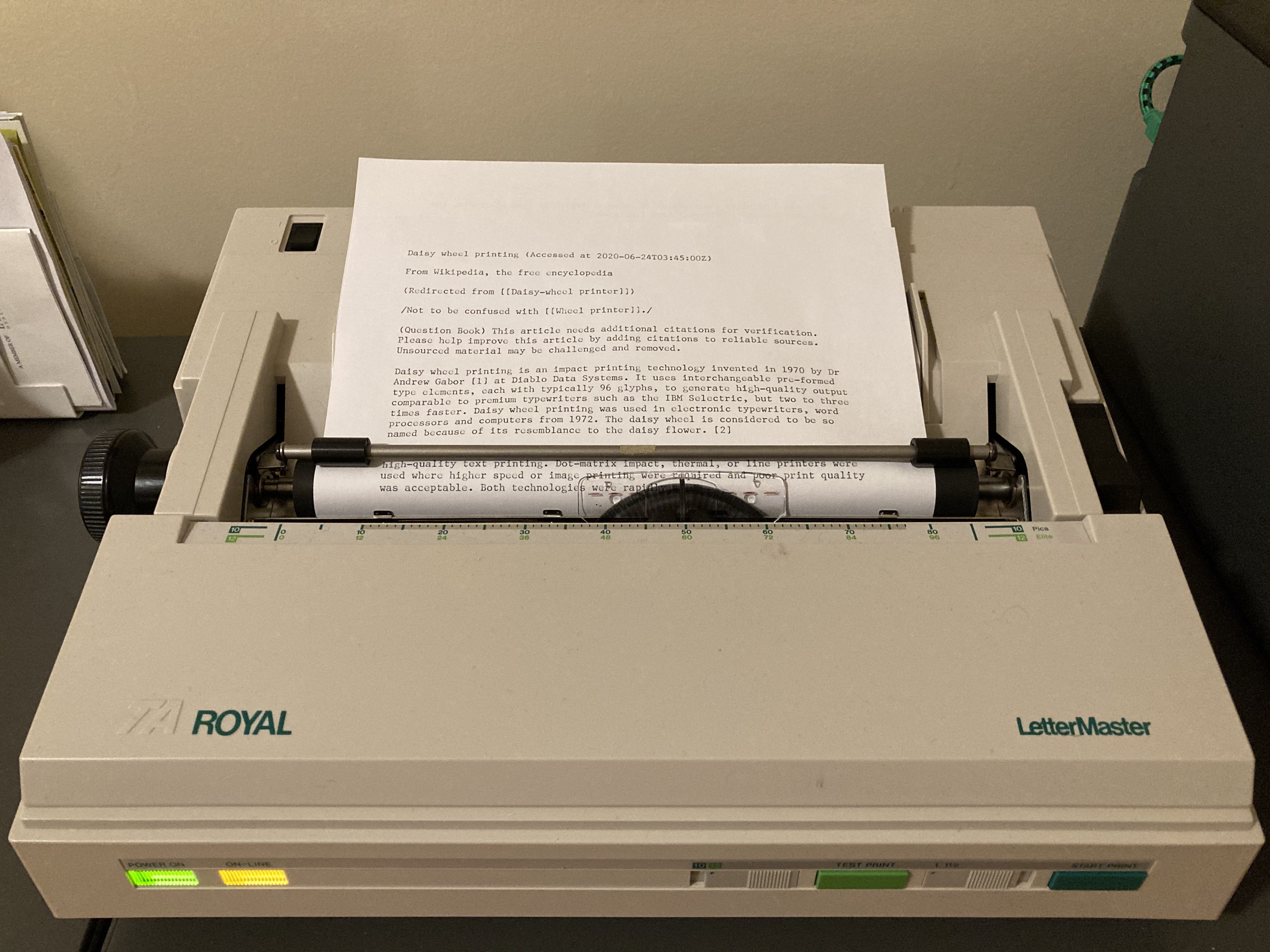 This is a TA Royal LetterMaster daisywheel printer, originally manufactured around 1985, printing a document on A4 paper.